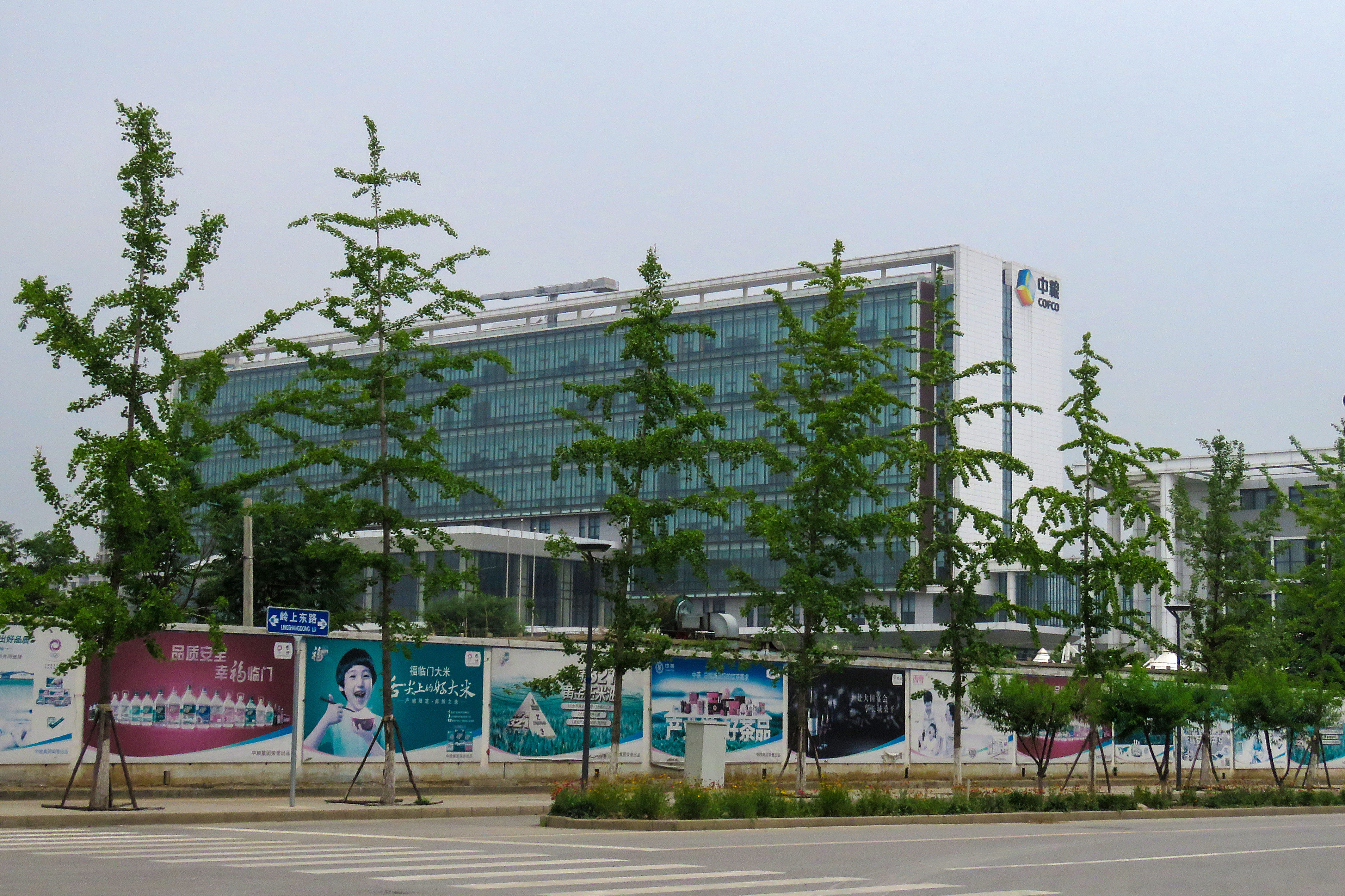 The COFCO Nutrition & Health Research Institute is right here.